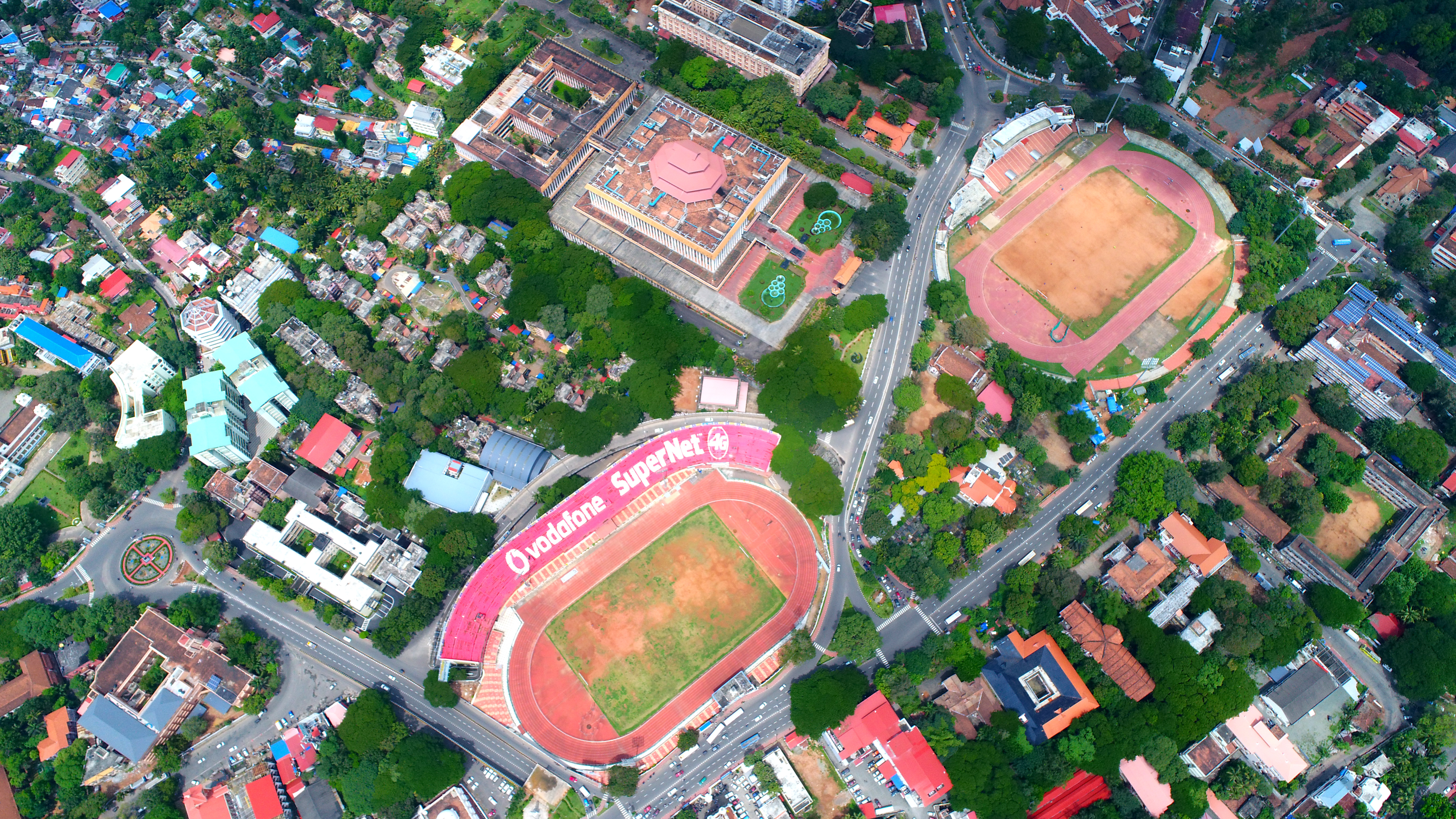 Aerial view of Palayam, Thiruvananthapuram City. CSN Stadium, University Stadium Kerala Legislative Assembly Building can be seen in this picture.